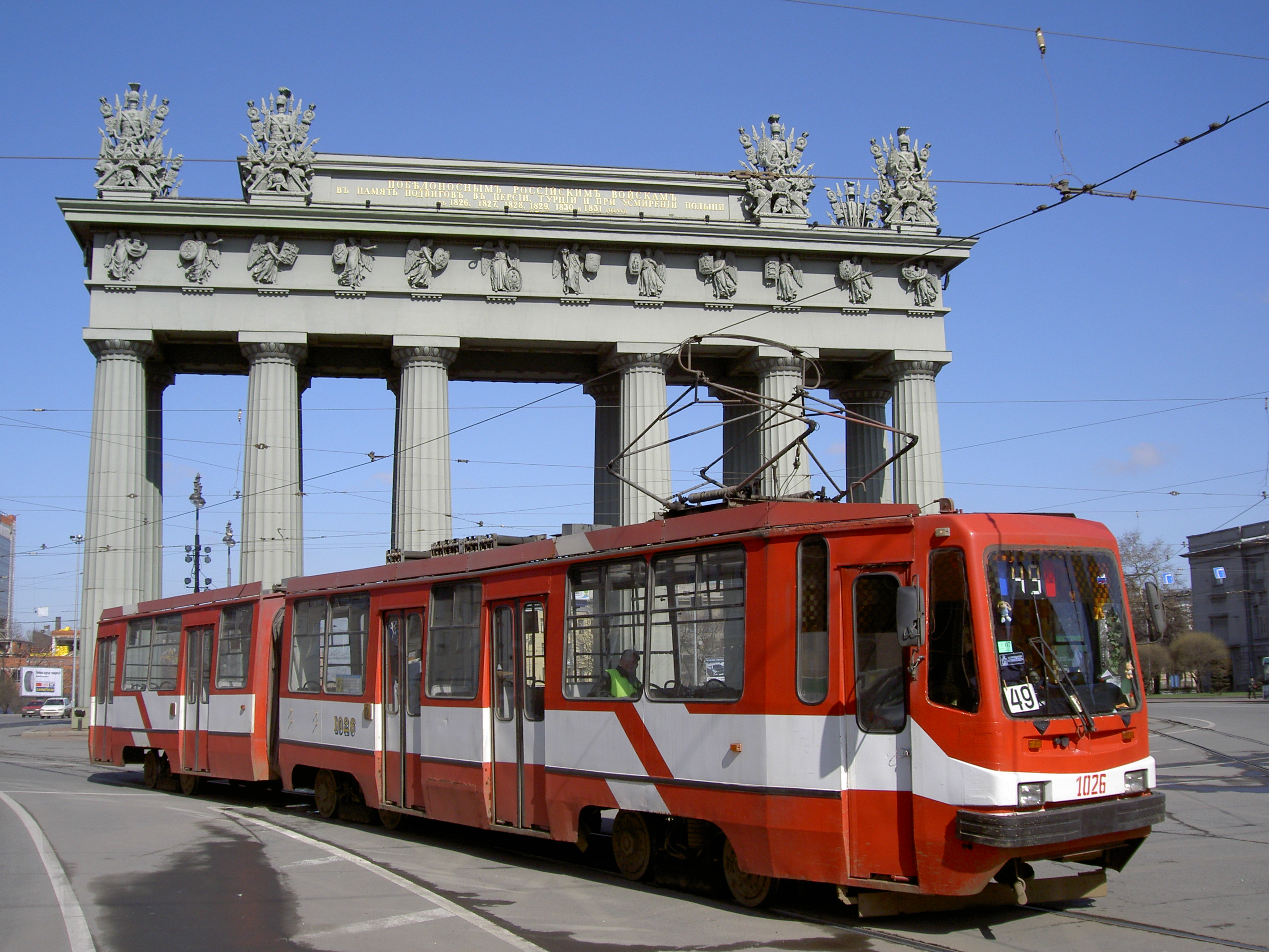 Tram at Moskovskiye Vorota square in Saint Petersburg